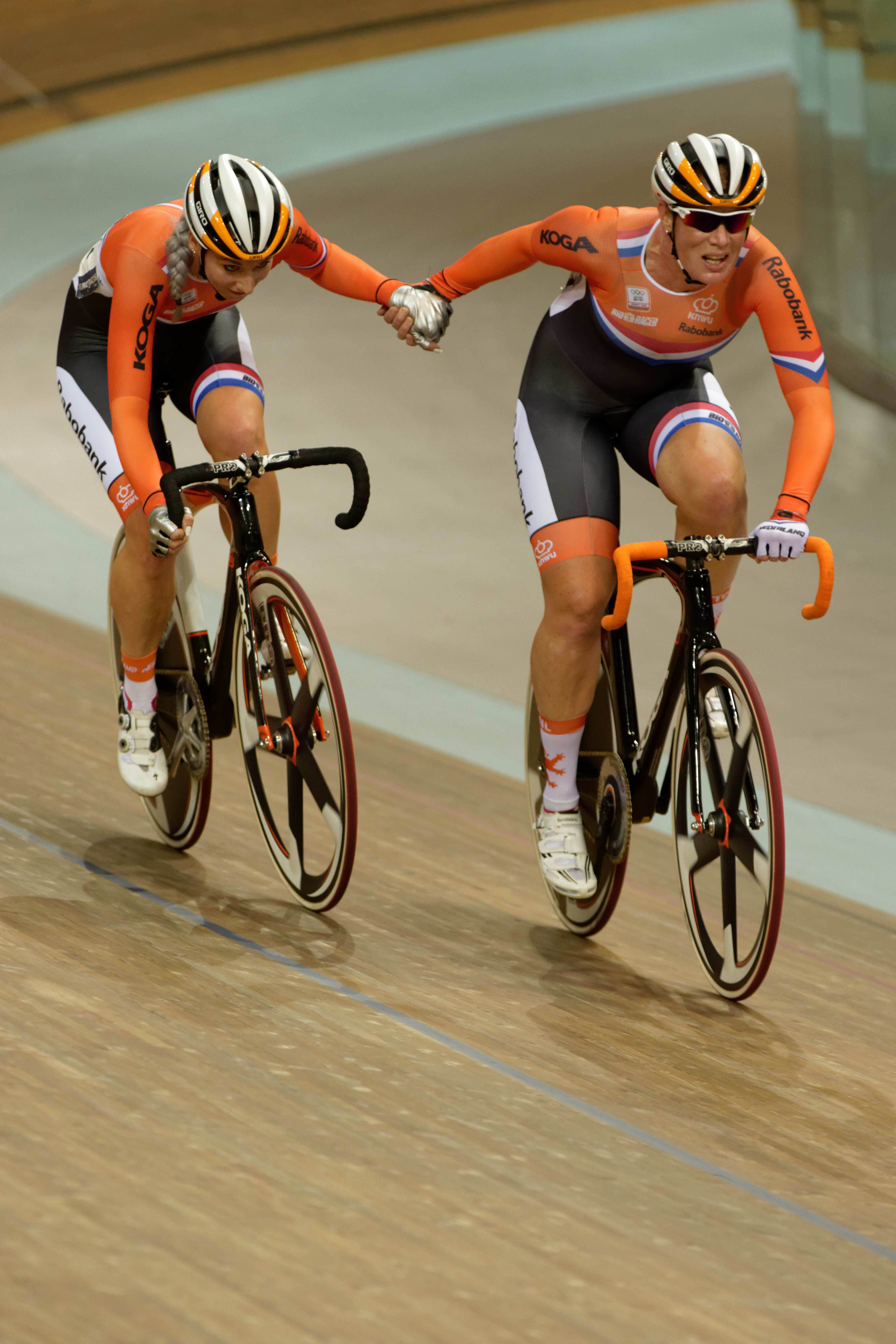 2016 UEC European Track Championships